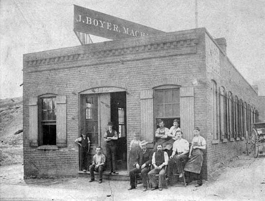 St Louis, MO